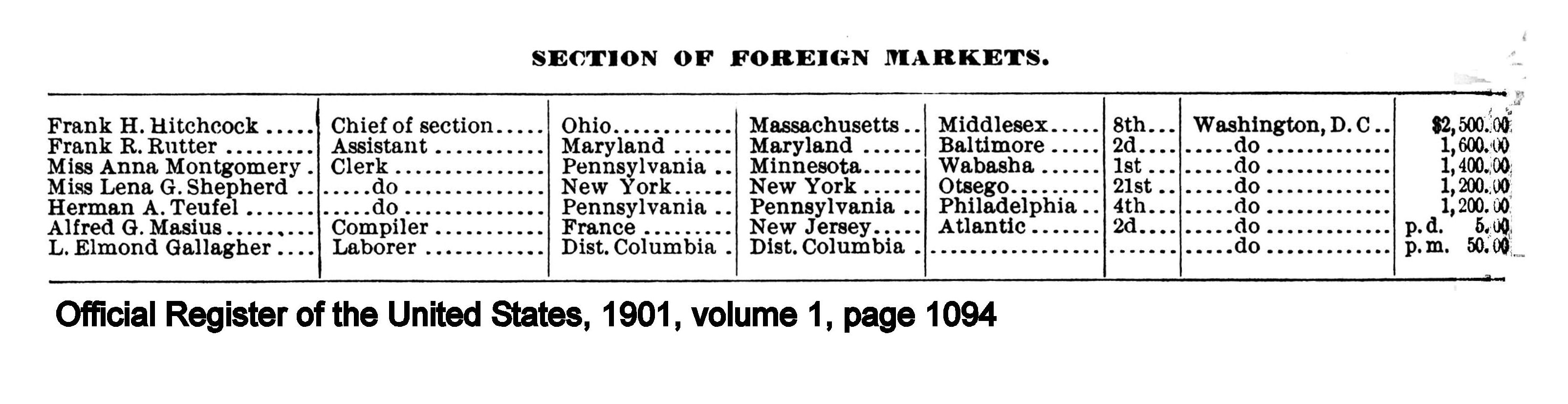 Scan of vignette of "Official Register of the United States", 1901, volume 1, page 1094, displaying staff of the Section of Foreign Markets, Division of Statistics, U.S. Department of Agriculture. Publication is in the public domain as a work of the U.S. Government.